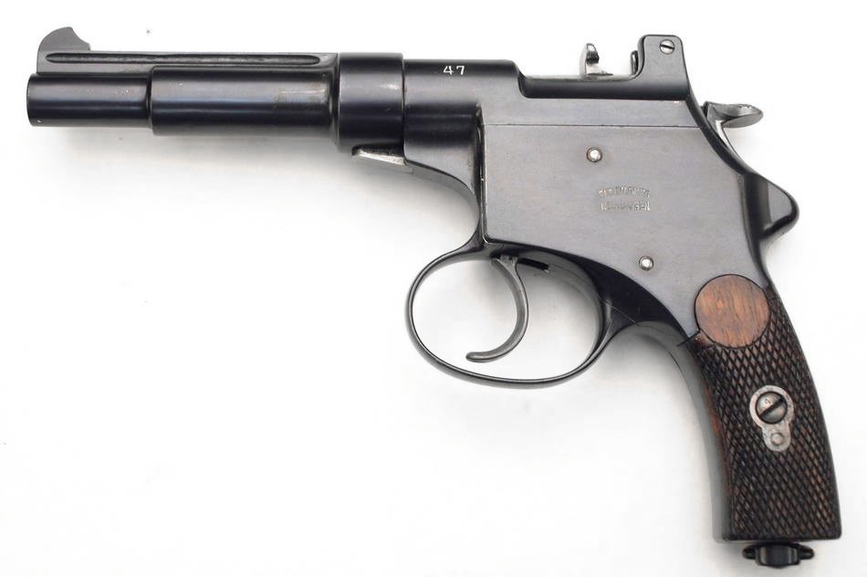 Mannlicher M1894. Caliber 6.5 mm serial #47 manufactured by FAB.D'ARMES of Neuhaussen, Switzerland.